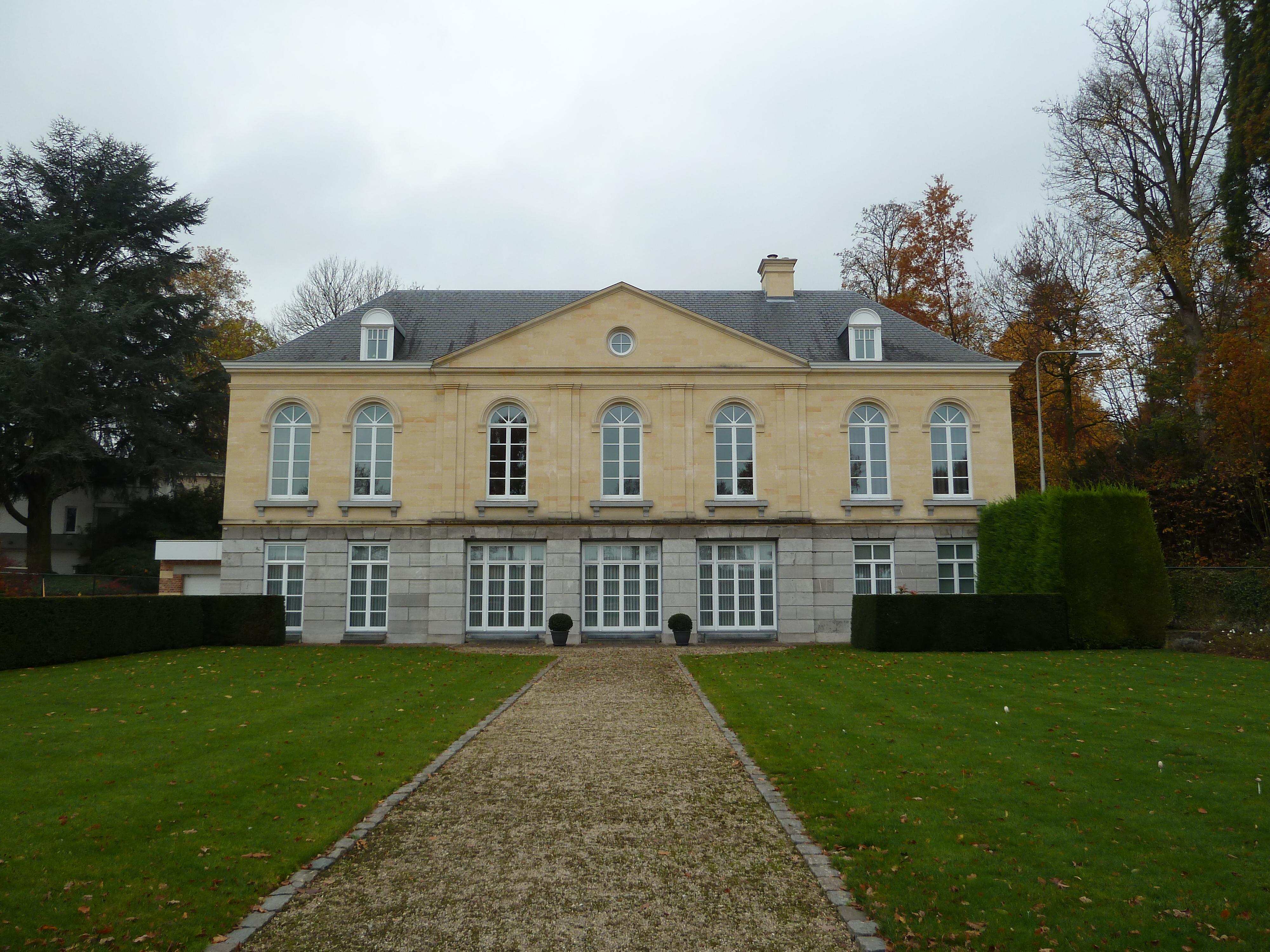 Aalbekerweg 91, Aalbeek, Hulsberg, Limburg, the Netherlands